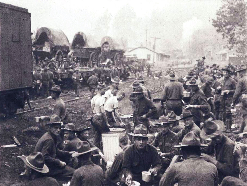 Federal troops were sent to West Virginia by President Harding to stop the fighting in Blair Mountain in 1921. Federal troops arrive in West Virginia and begin to unload from their train transport.